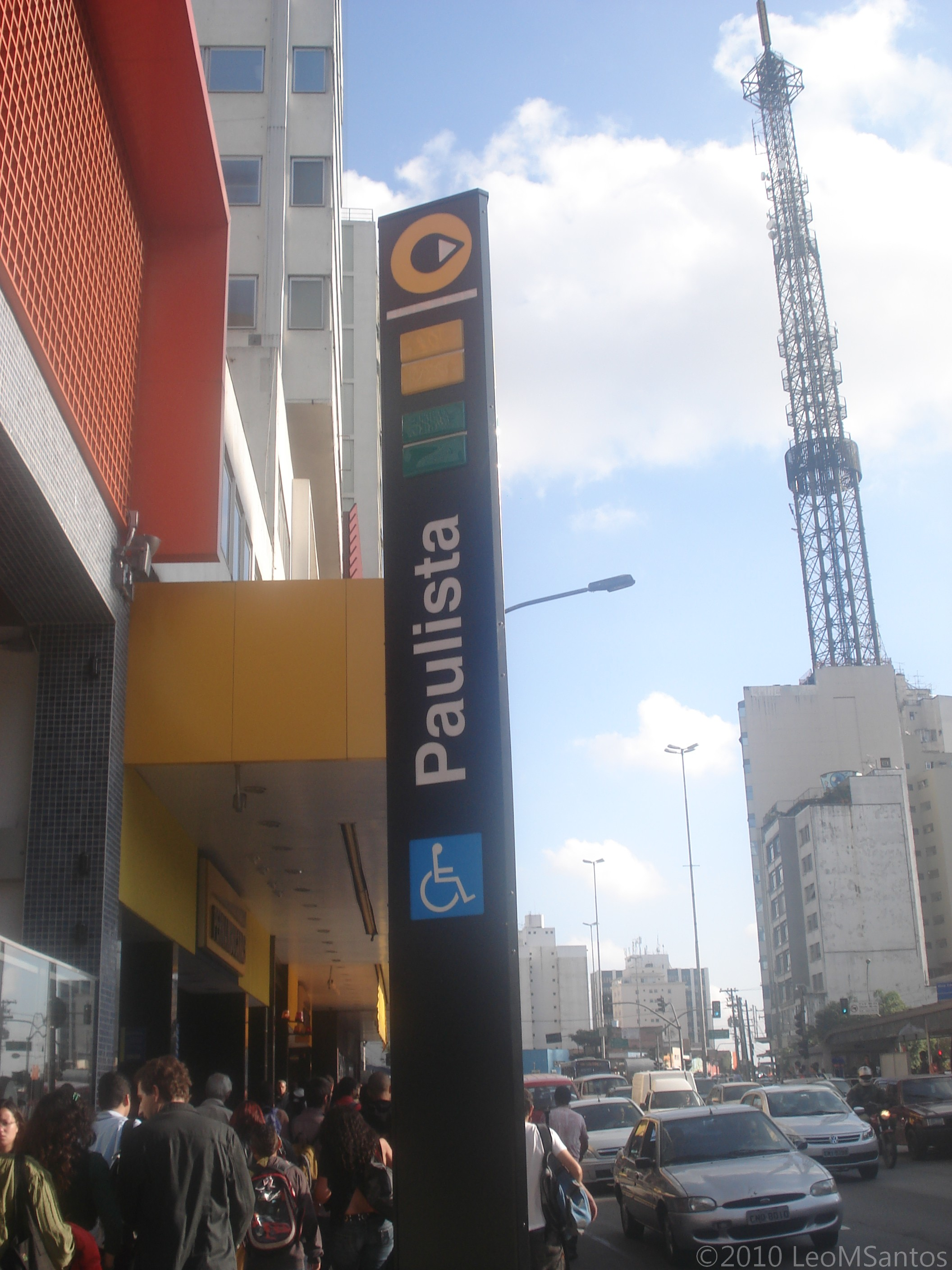 Paulista Station of Line 4 - Yellow of São Paulo Metro.